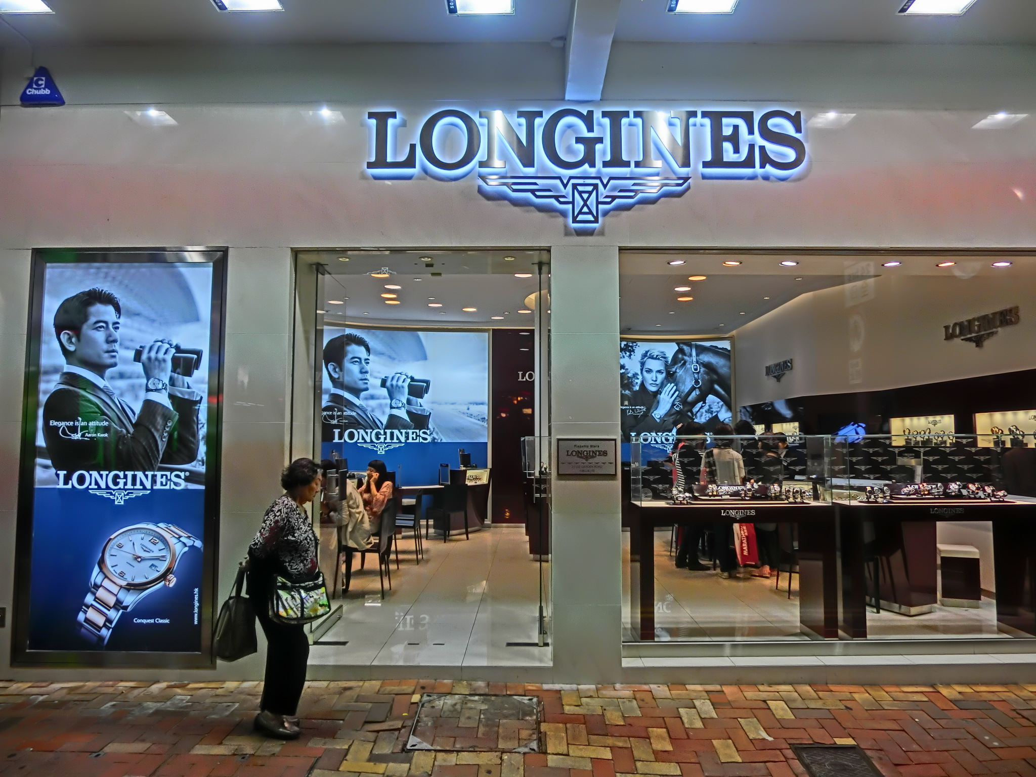 銅鑼灣啟超道, Shops in Kiu Chiu Road, Causeway Bay, Hong Kong